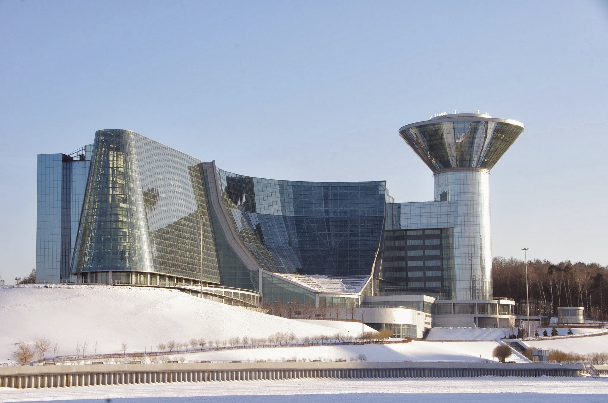 Krasnogorsk, Moscow Oblast, Russia - administrative centre of Moscow Oblast